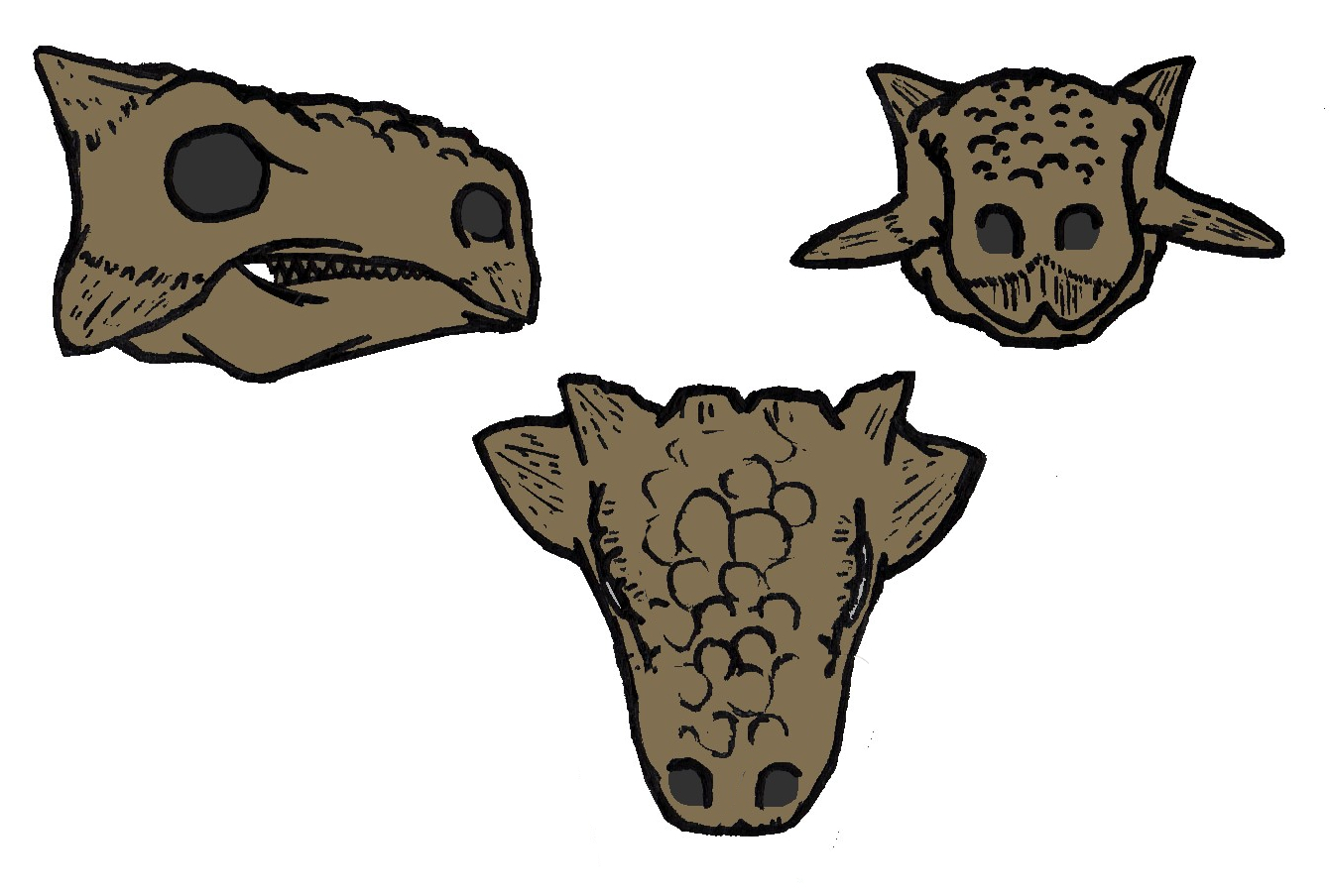 Skull of the ankylosaurian dinosaur Tarchia gigantea.